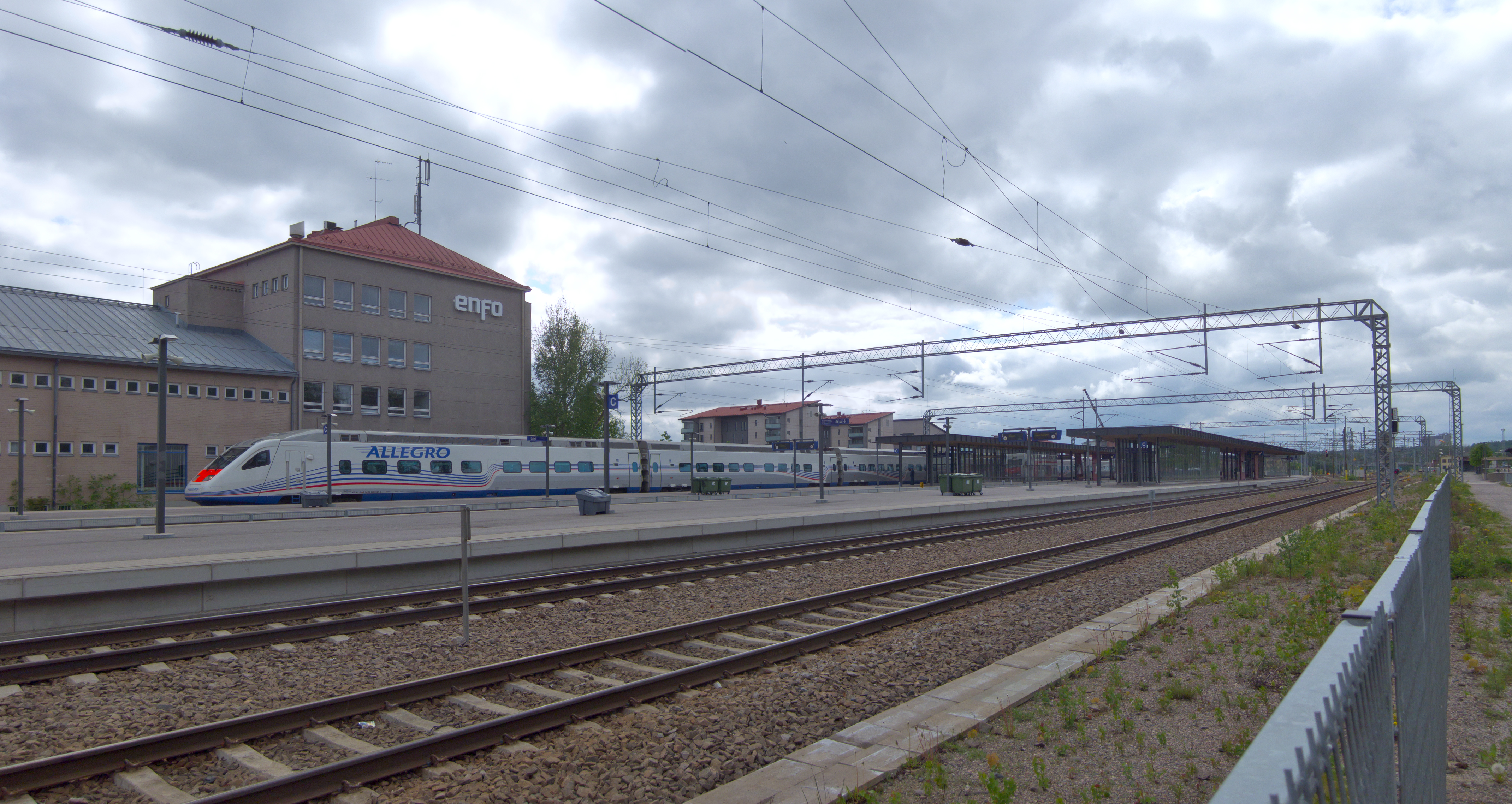 A Karelian Trains class Sm6 Allegro at Lahti railway station.